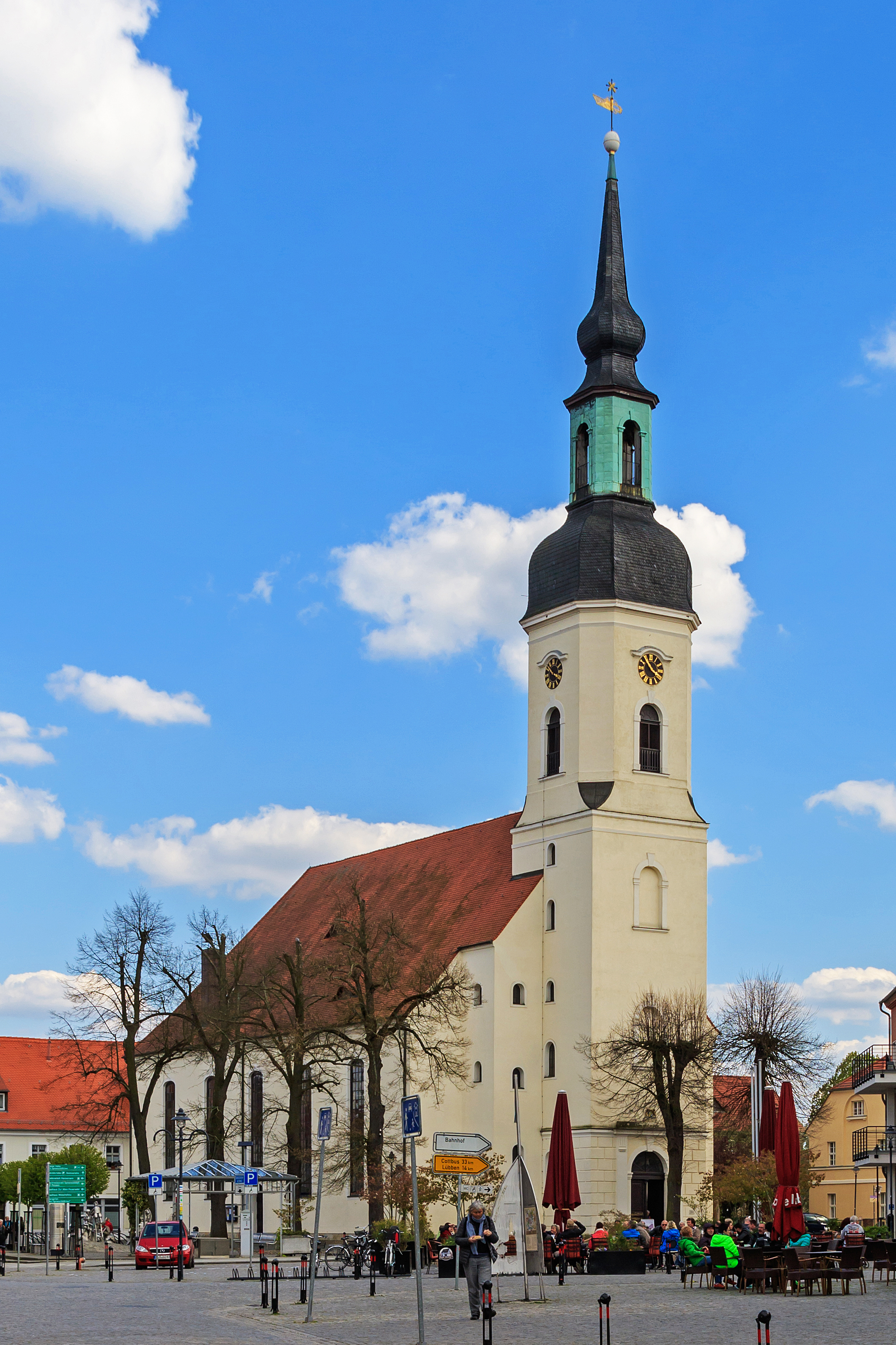 St. Nicholas Church in Lübbenau/Spreewald, Brandenburg, Germany